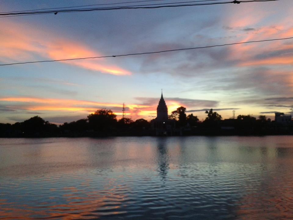 Image of Shiv Temple beside Sagar Pokhra clicked at Dusk.